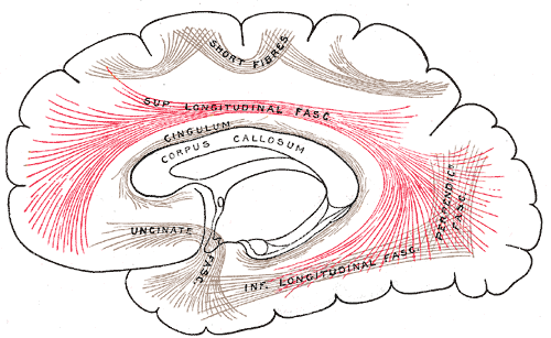 Superior longitudinal fasciculus. The association fiber is lateral to the centrum ovale of a cerebral hemisphere and connects the frontal, occipital, parietal, and temporal lobes.